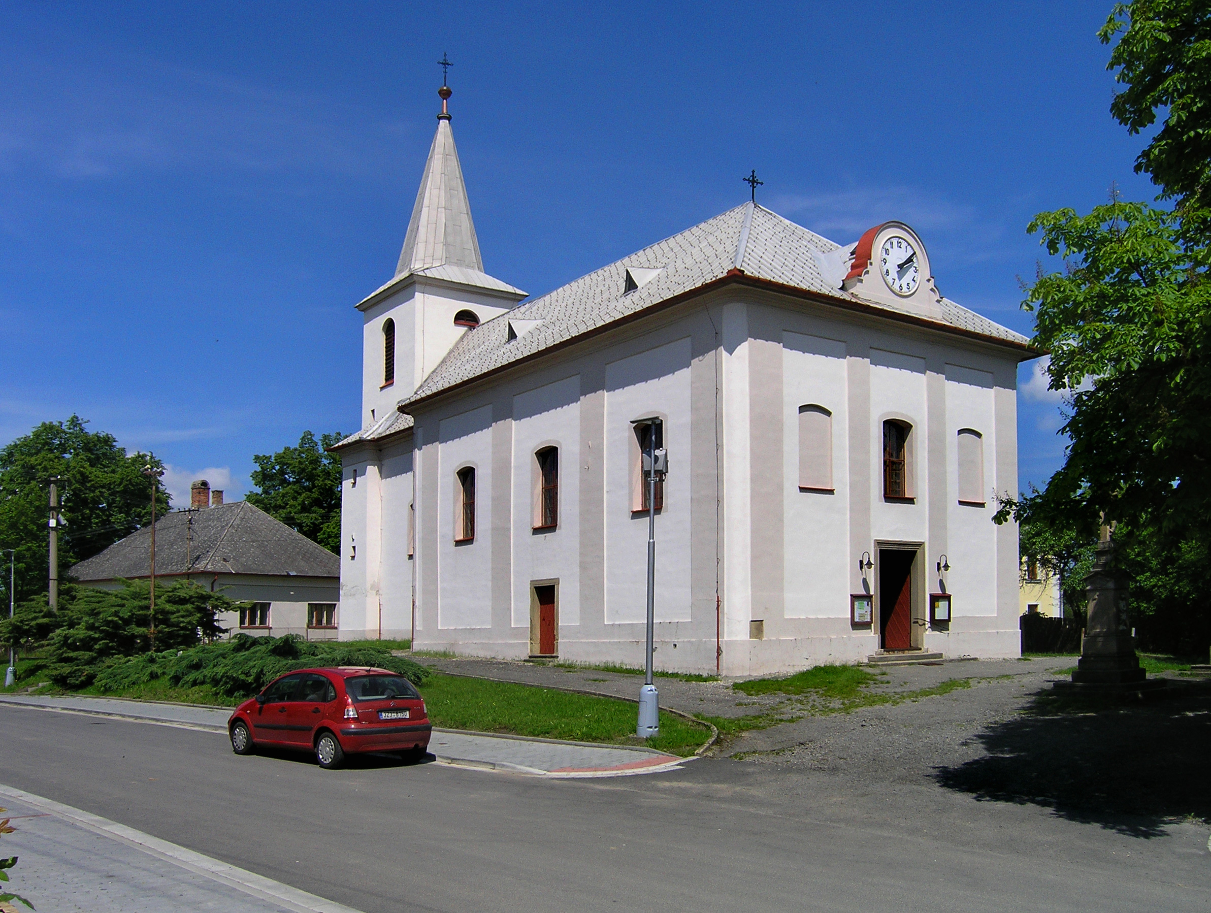 Church in Roštín village, Czech Republic